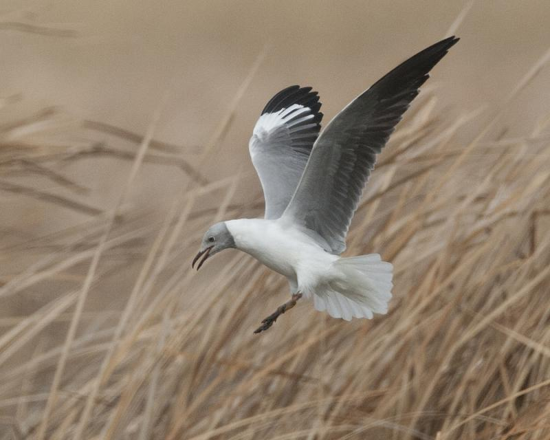 Gray-headed Gull Larus cirrocephalus 16th. August 2011 Marievale, Gauteng, South Africa 690V9624